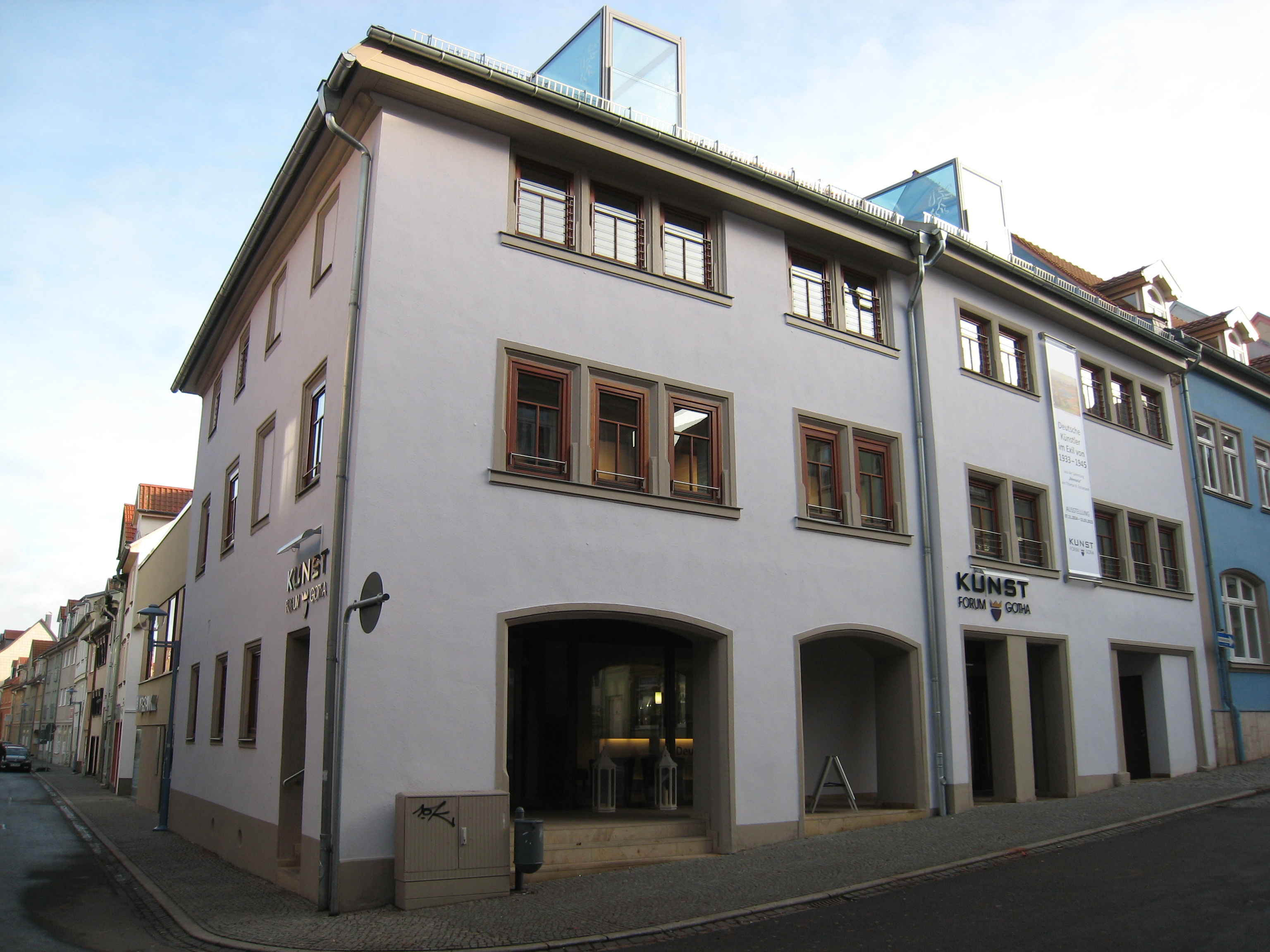 Kunstforum Gotha Querstrasse 13